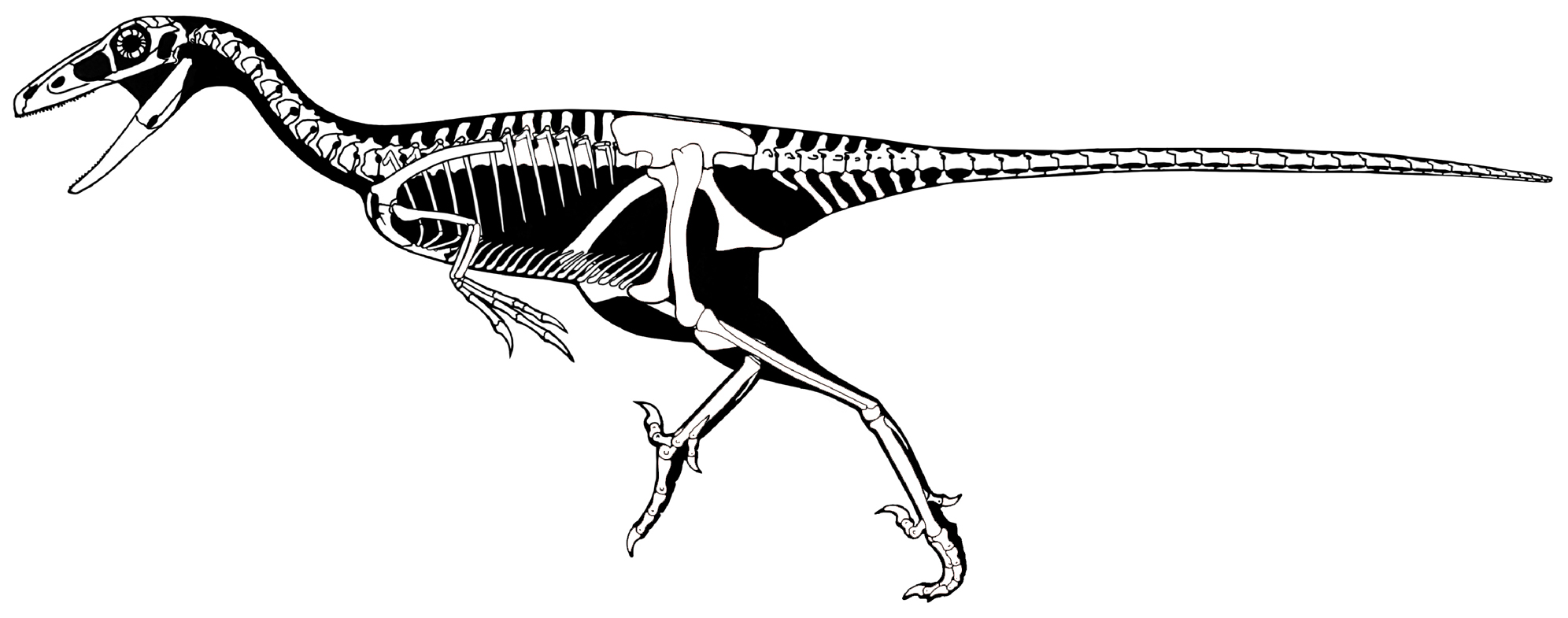 Skeletal reconstruction of Stenonychosaurus,, based on all known material, with missing parts of the skull and vertebral column based on Saurornithoides.[1] This version is modified from a version which was itself modified with red colour to show the known parts of the new genus Talos.